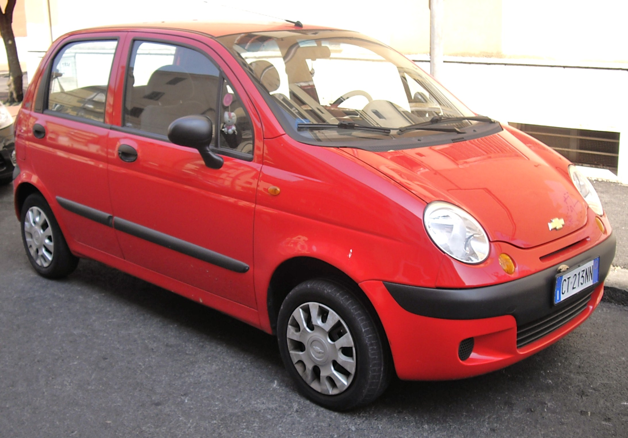 Chevrolet Matiz